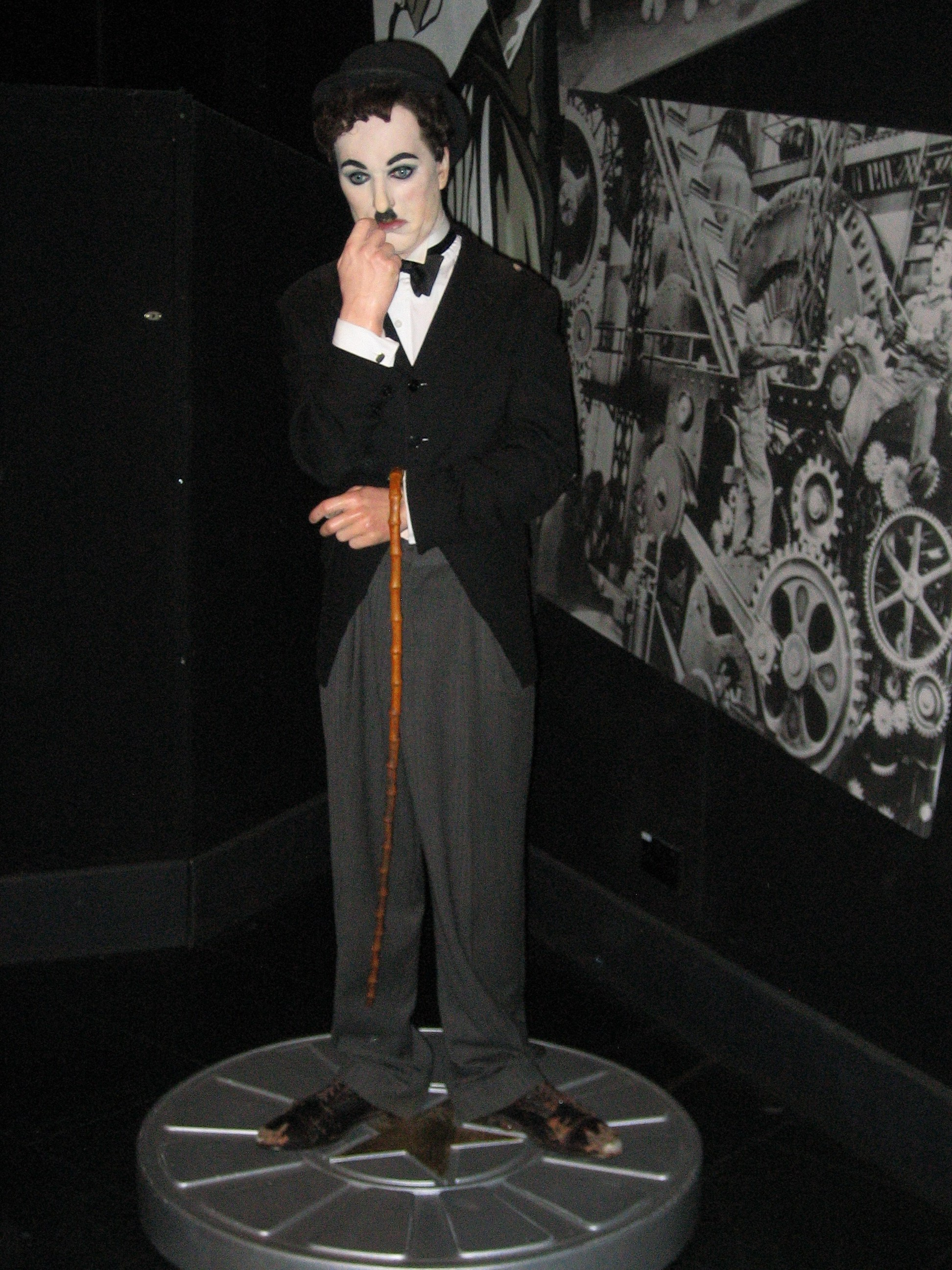 Charlie Chaplin in Madame Tussauds London, City of Westminster, London, England, United Kingdom